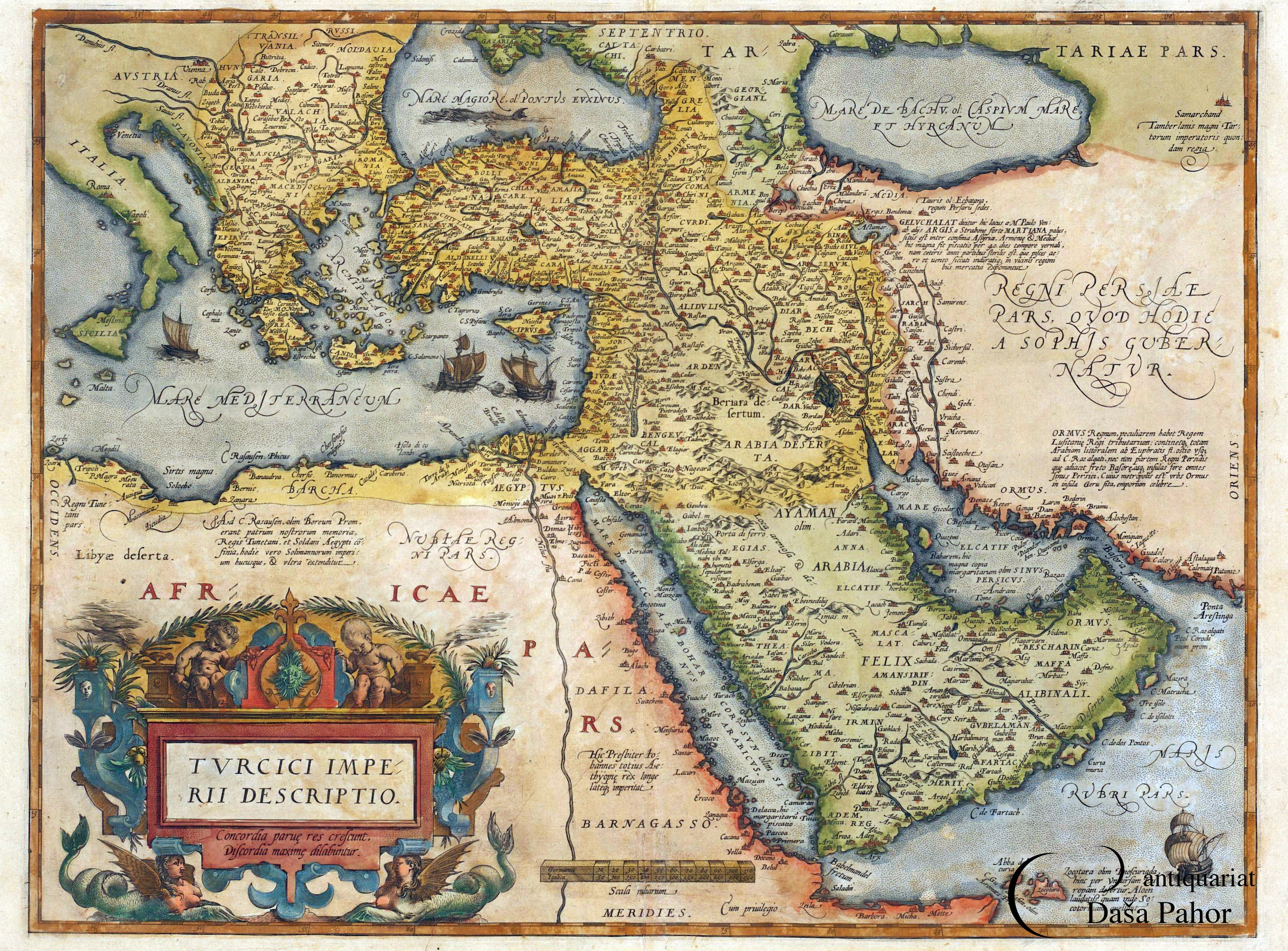 An engraved map and coloured by hand. It is part of A. Ortelius's atlas Teatrum Orbis Terarum, Antwerp, 1570, map no. 50